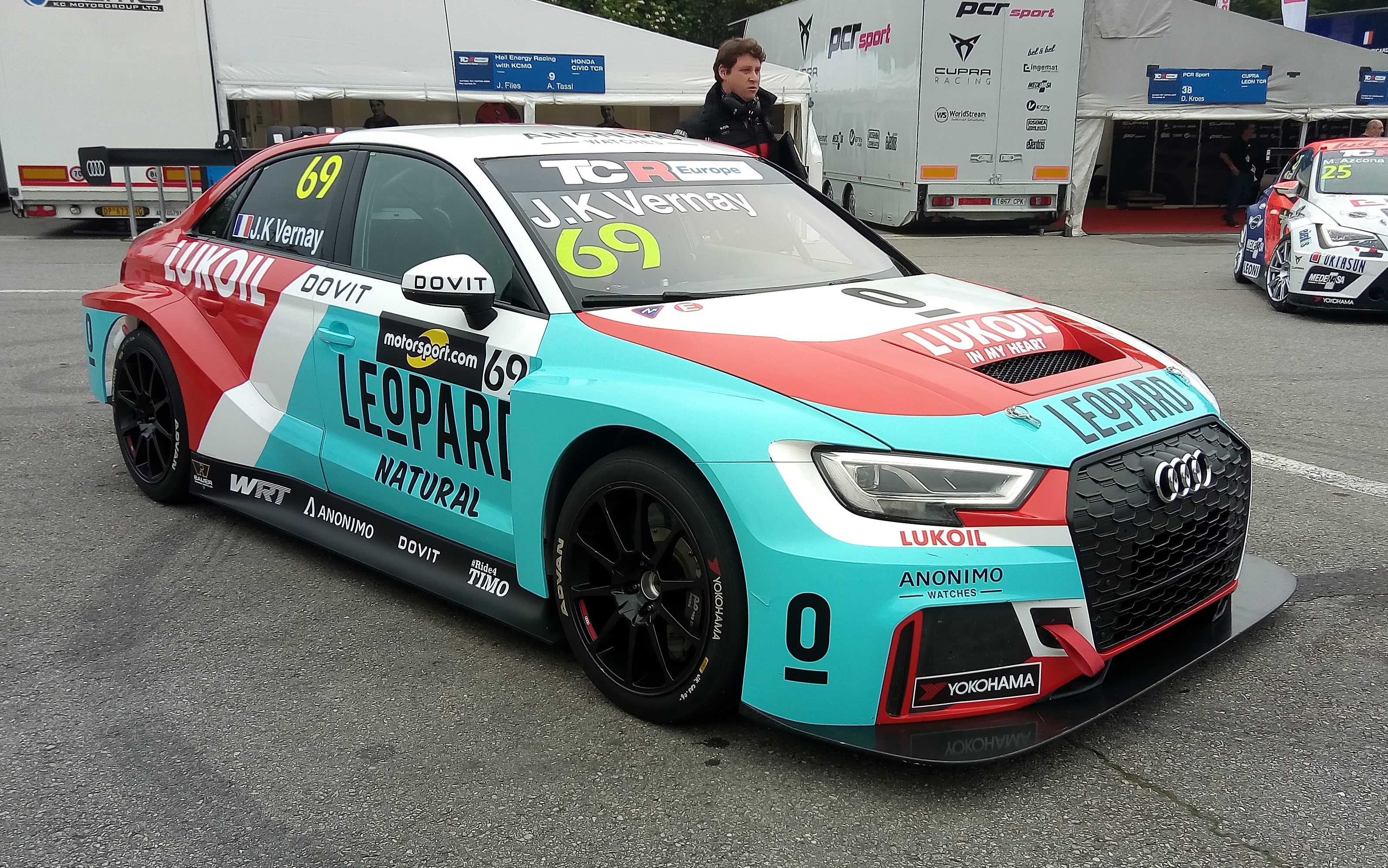 Jean-Karl Vernay (Leopard Lukoil Team WRT) at the 2018 TCR Europe Series round at Spa-Francorchamps.